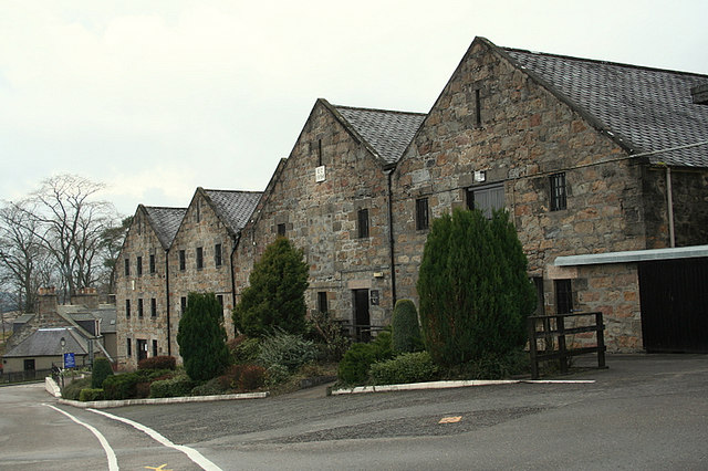 The duty free warehouses at Cardhu.